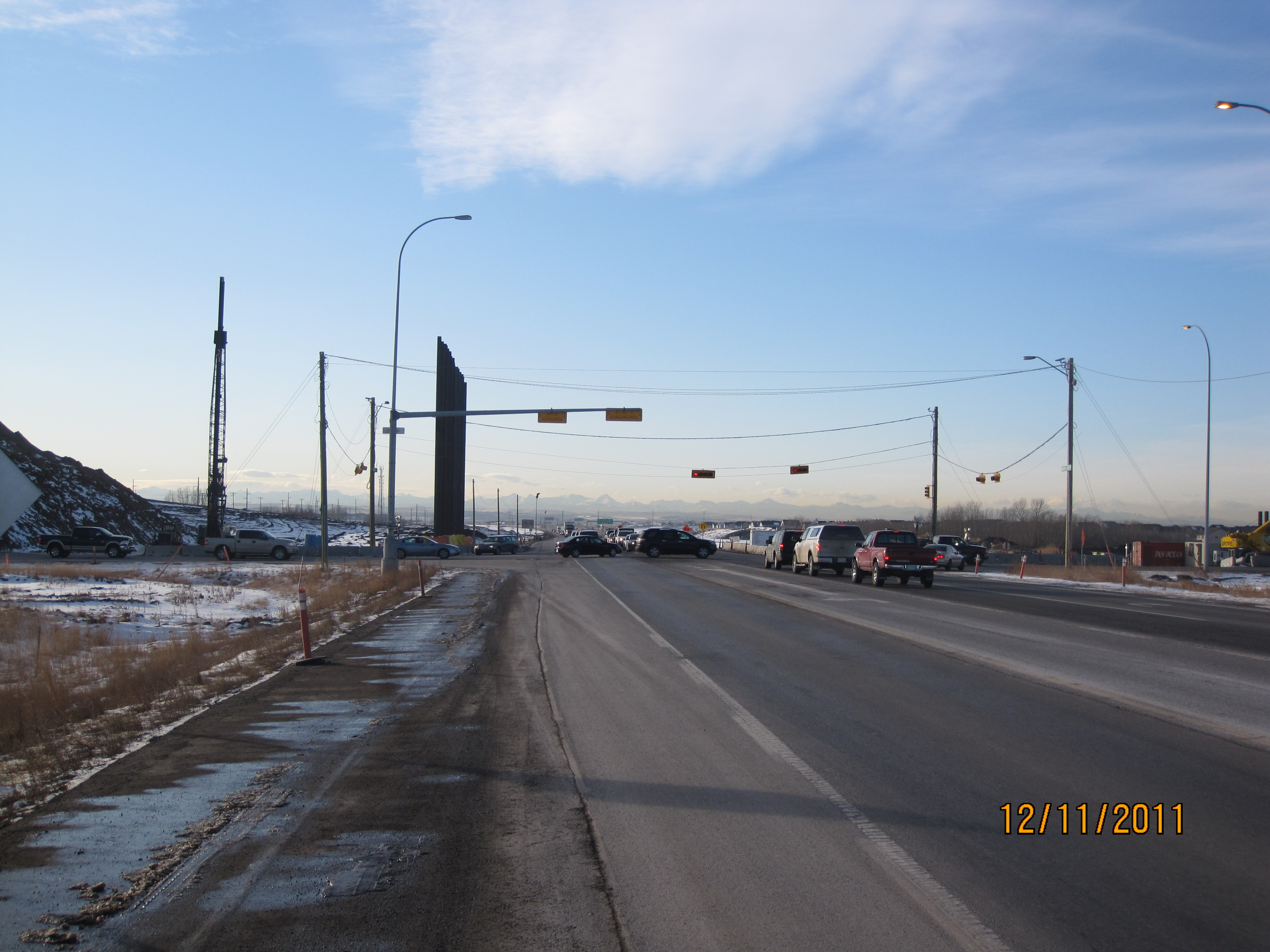 Southeast Calgary (Alberta, Canada) Ring Road 52 Street SE Interchange looking west along 22X as of December 11, 2011